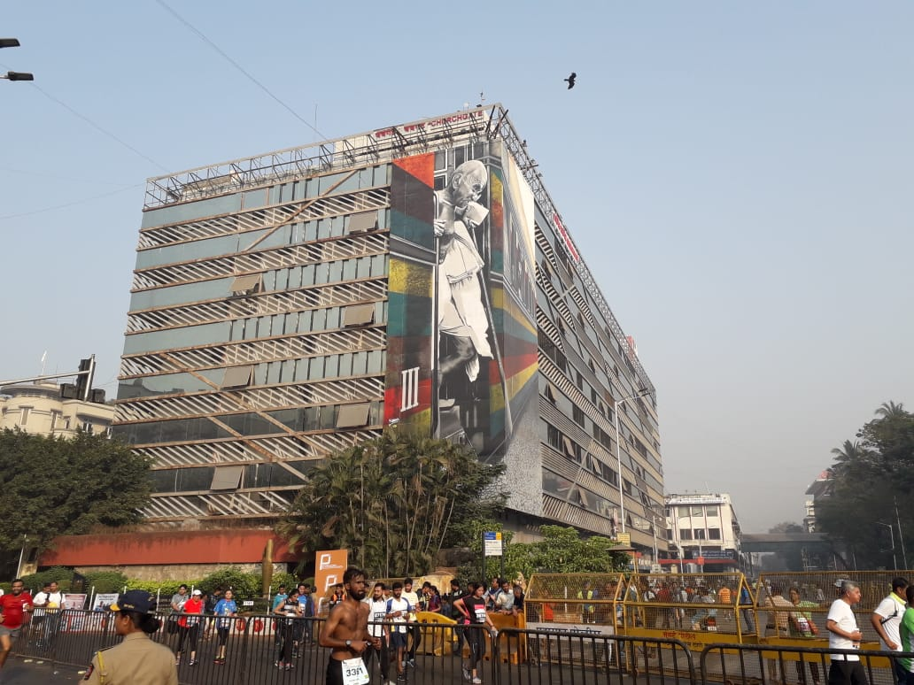 Photograph of Churchgate Station with Mural of Mahatma Gandhi. The Art work was sponsored by Asian Paints Ltd as part of its CSR activities, It is painted by renowned Brazilian artist Eduardo Kobra and his team of 52 associates and technicians over 18 days.